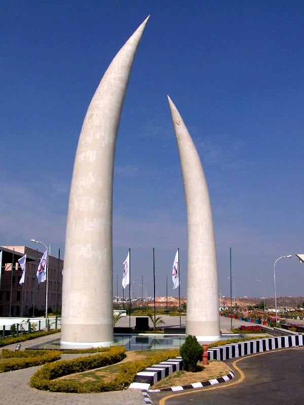 Eingang zum Exhibition Center mit Nachbildungen von Elfenbeinstoßzähnen im Hyderabad Information Technology Engineering Consultancy City (HITEC City) technology township, Hyderabad, Andhra Pradesh, Indien